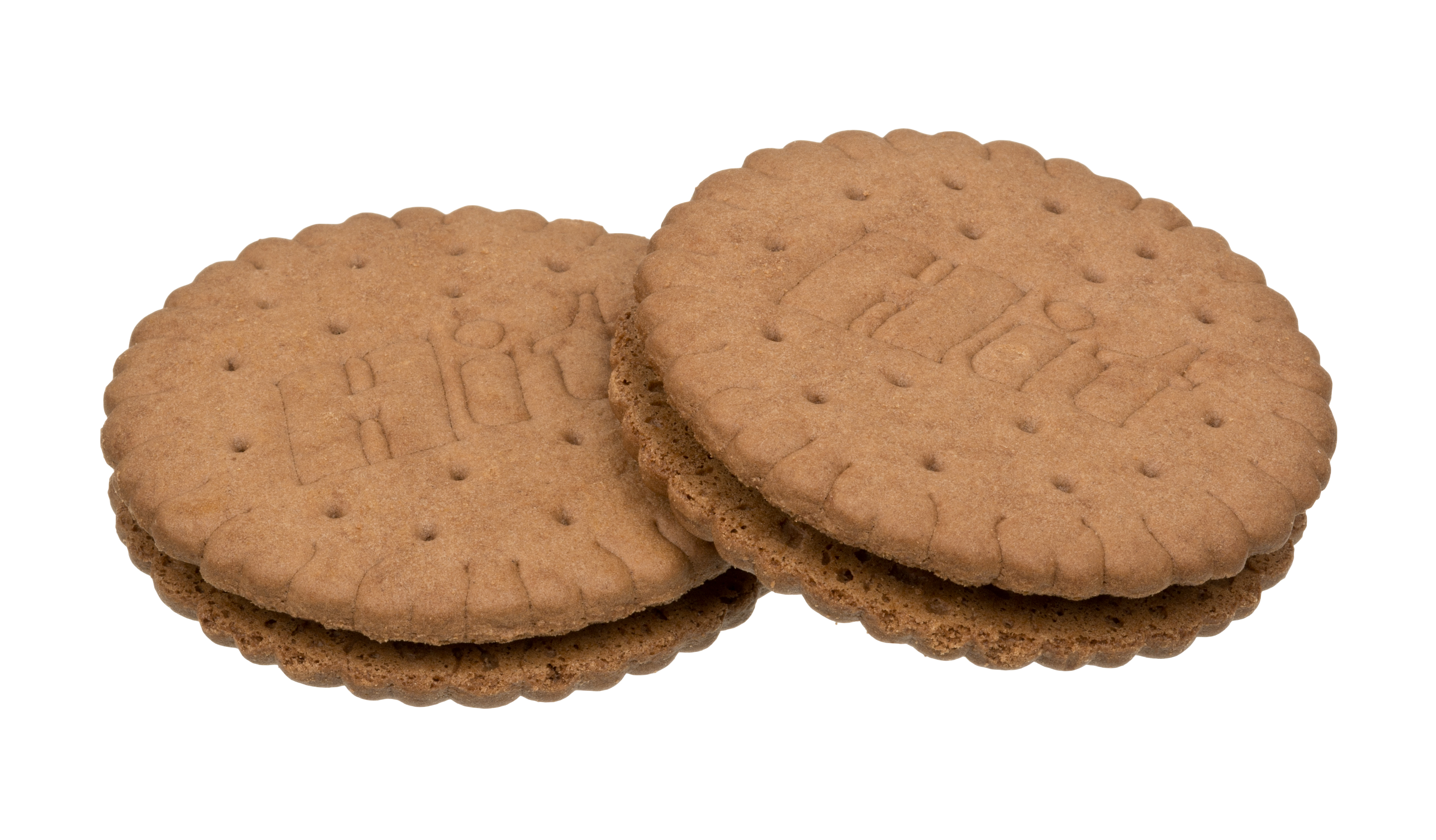 Bahlsen Hit Cookies, vanilla flavored. Cheap (less than $2) and made in Poland, these were bought at a supermarket in Brooklyn, NY.